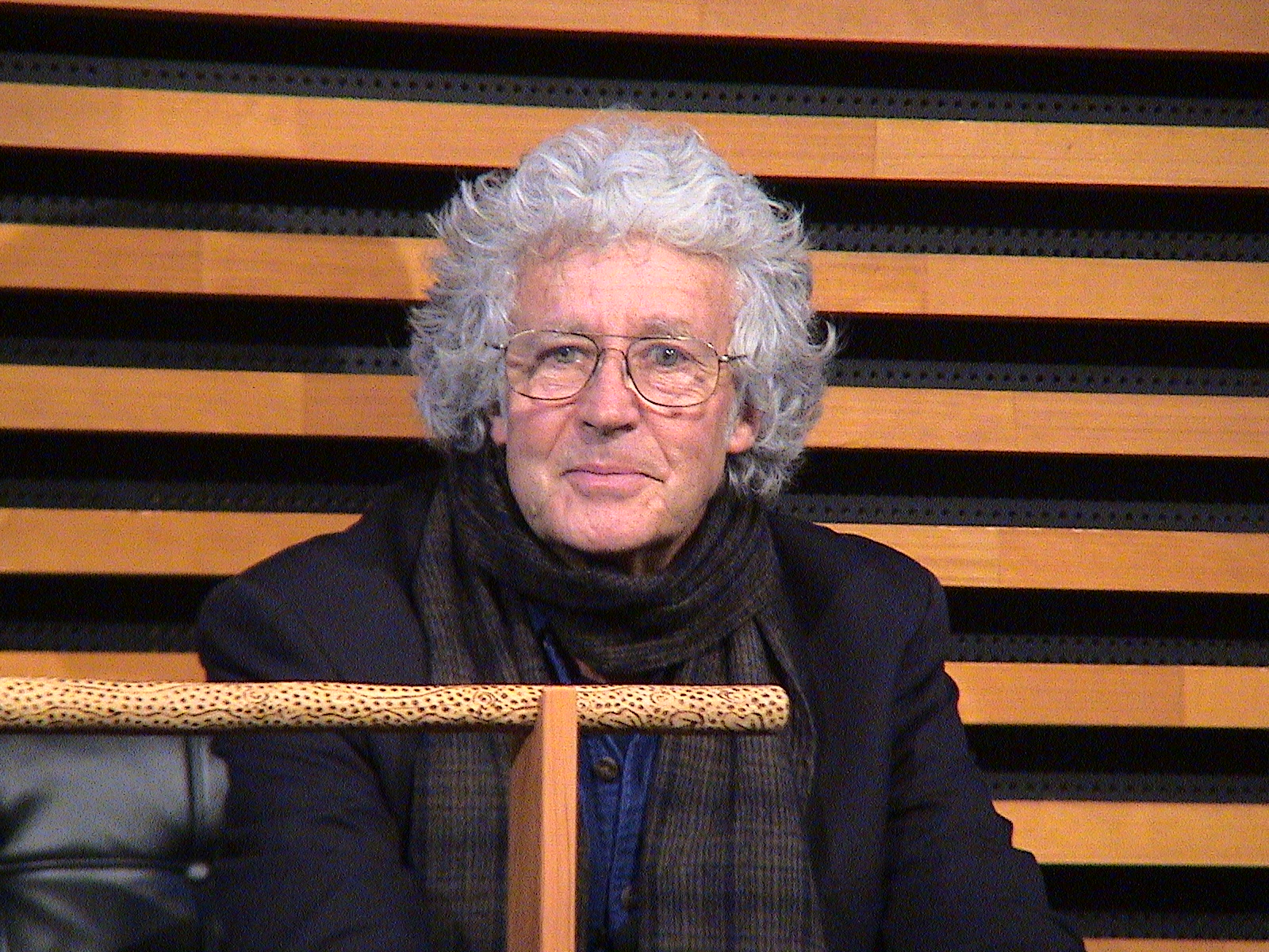 Michael Leunig, a guest speaker at the 5th International Biennial Parks Leadership Conference held in Adelaide, Australia, on 22 May 2012.